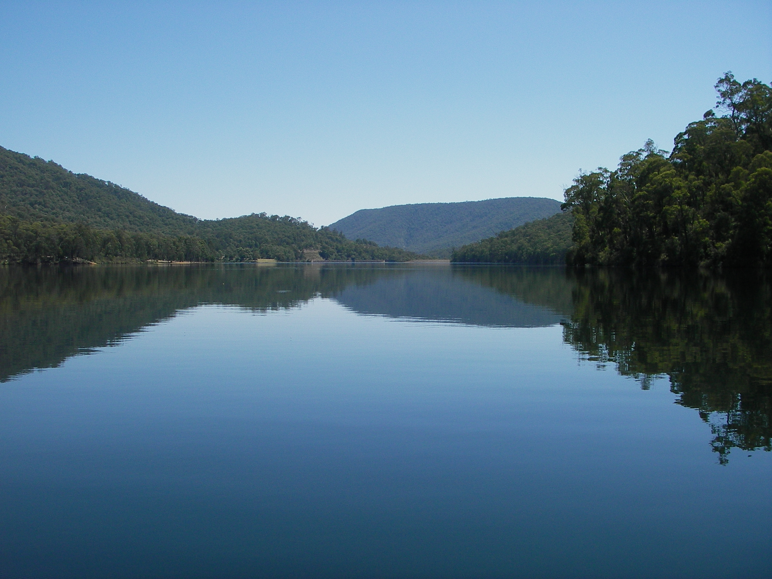 Lake William Hovell, Looking North towards weir